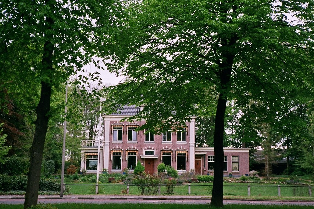 Mansion in Den Hulst, Overijssel, May 2010. Photo: Ni'jluuseger